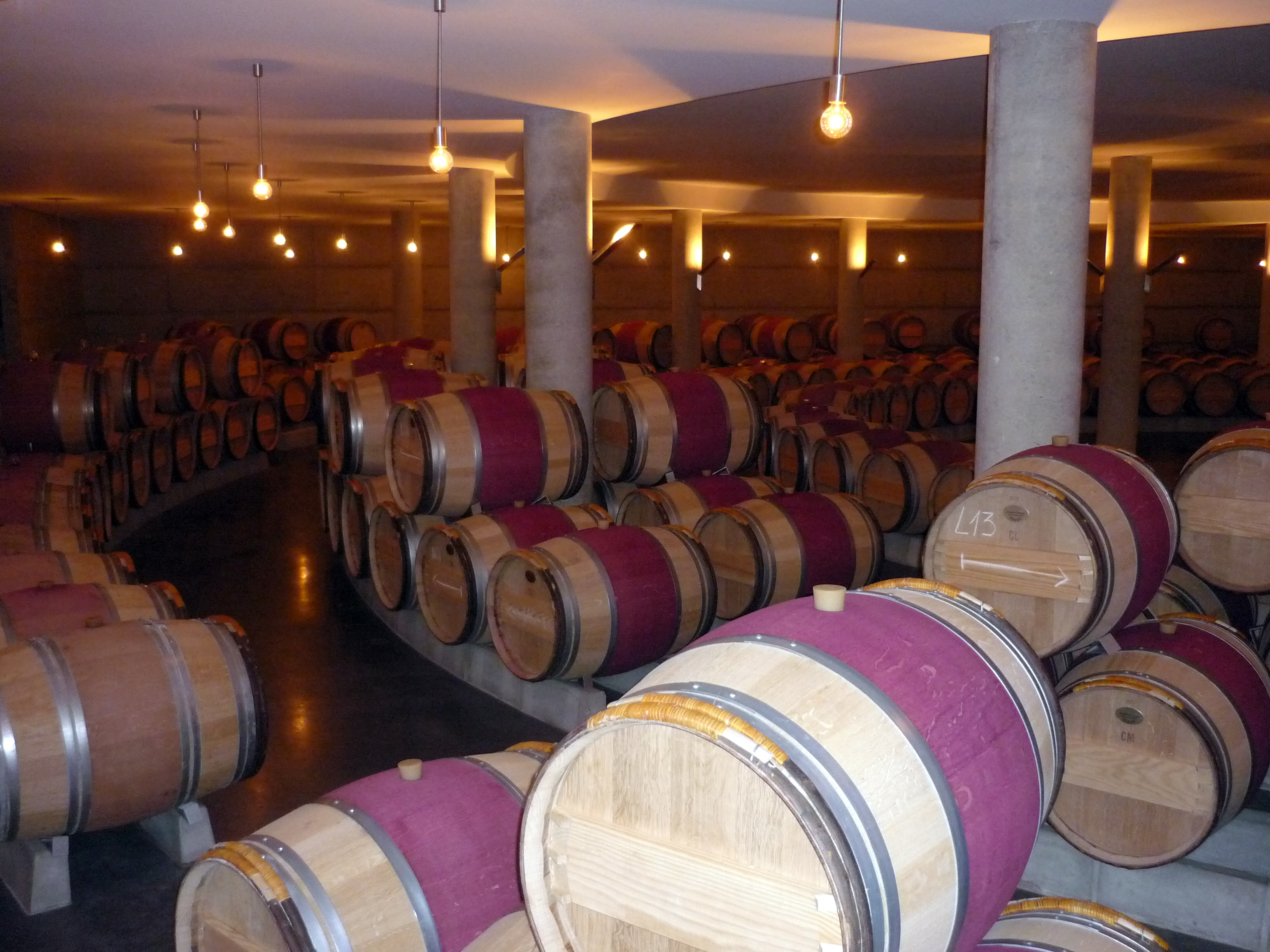 New oak barrels in the chai or cellar of the French wine producer Château l'Evangile in Pomerol on the Right Bank of Bordeaux.